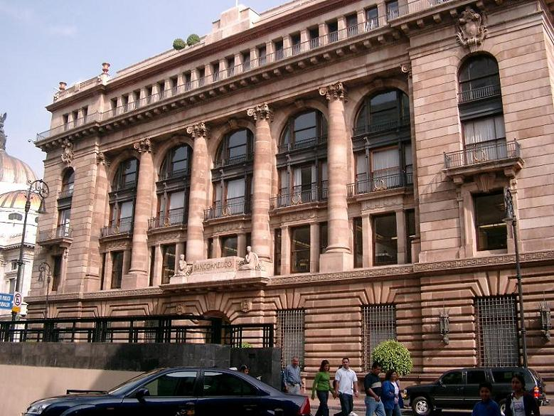 Banco de Mexico building. Cinco de Mayo street, Centro Historico, Mexico City, Mexico. Photo by (WT-en) Fabz 14:51, 1 January 2007 (EST)